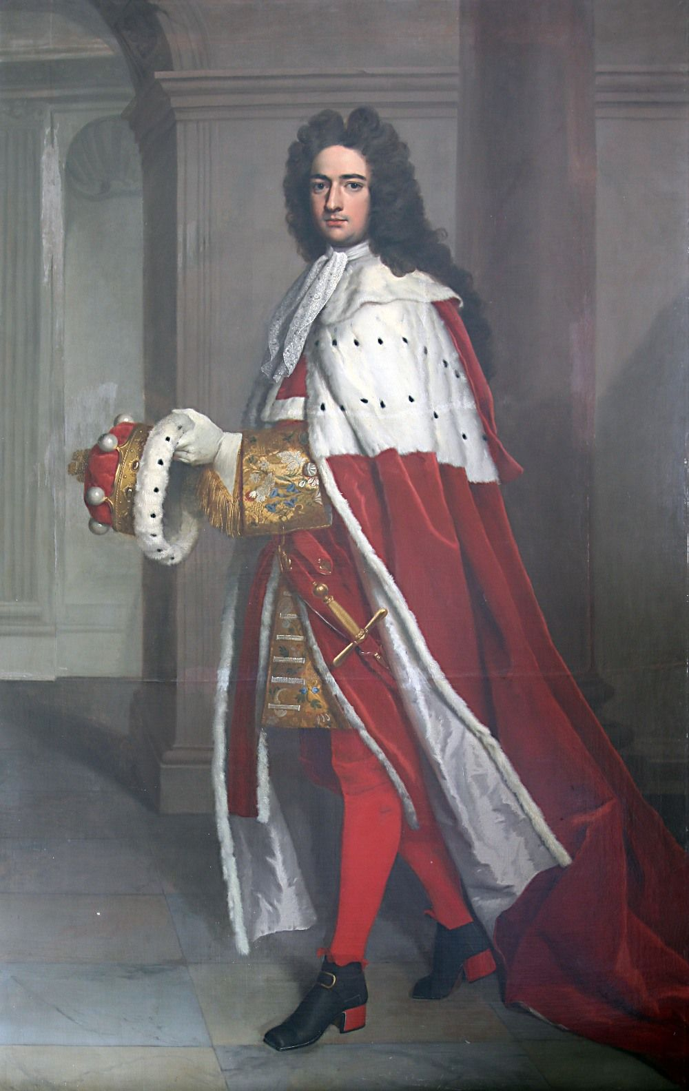 Portrait of John Ashburnham, 3rd Baron and 1st Earl of Ashburnham (1687–1737), English peer.